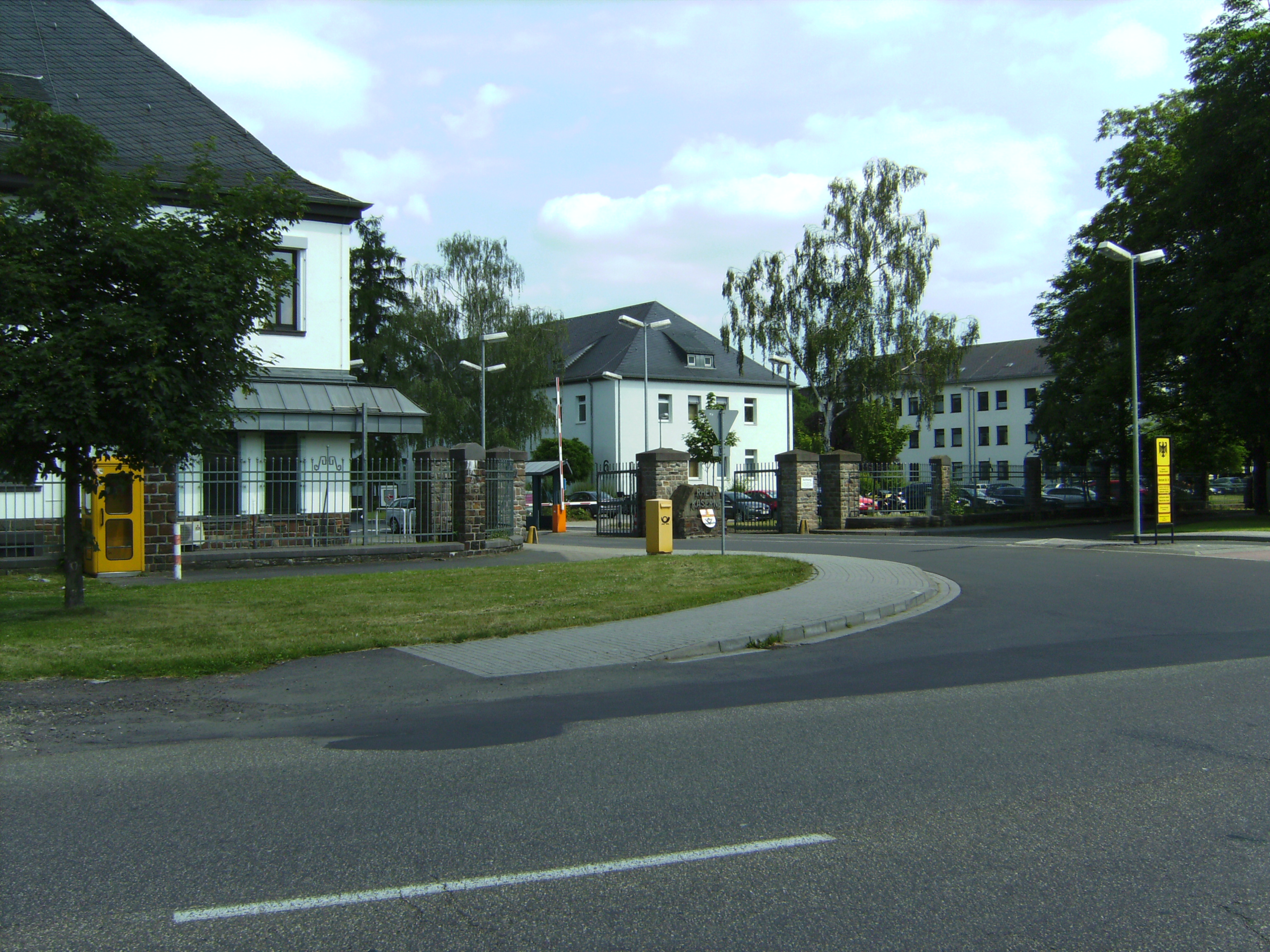 The Rhein-Kaserne at Koblenz